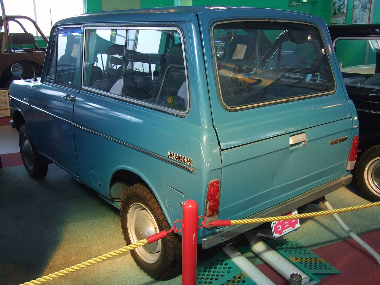 The rear view of a 1967 Cony 360. Location:at Uminonakamichi Seaside Park, Fukuoka City, Fukuoka, Japan.